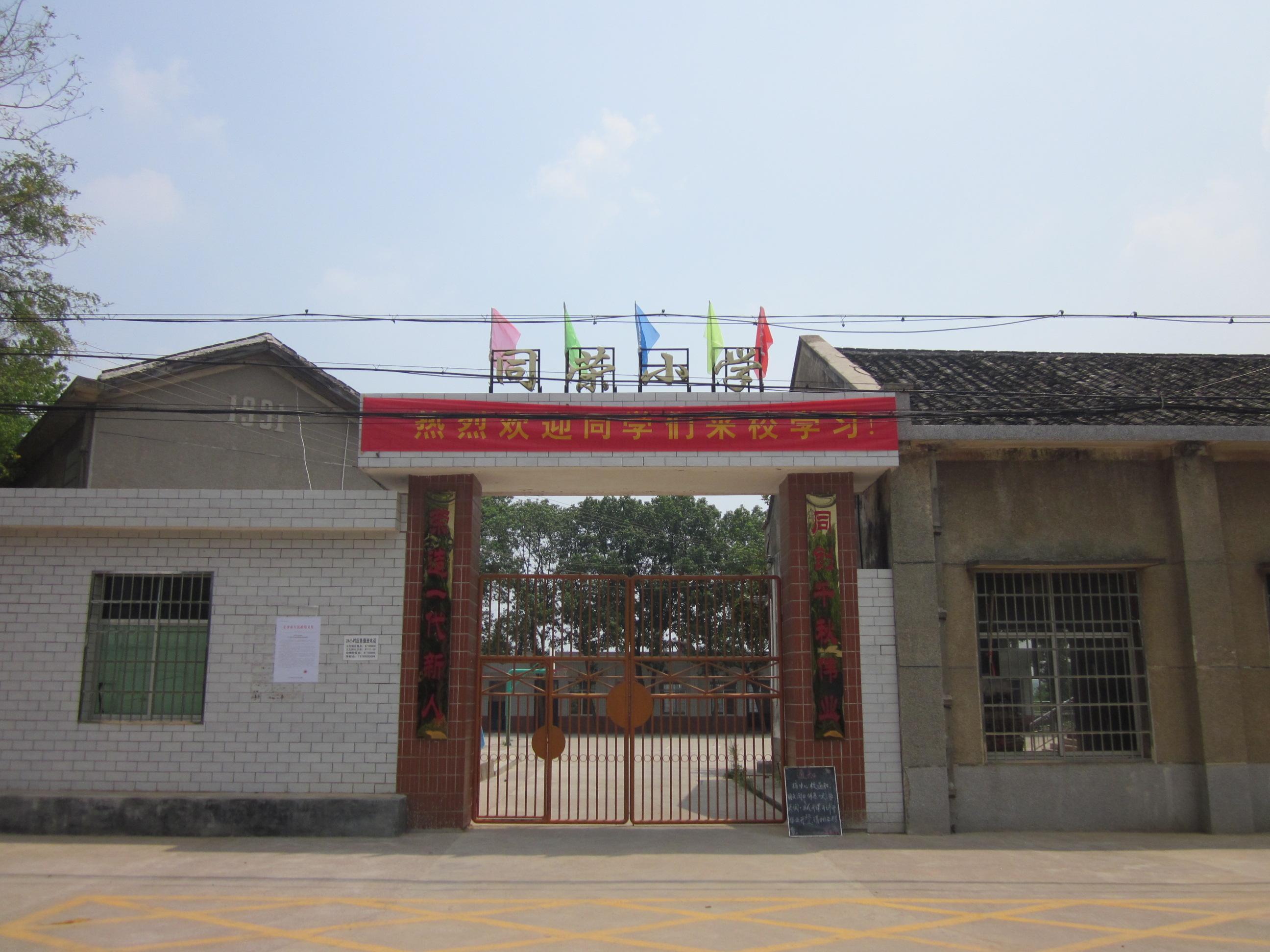 Datunying Township (simplified